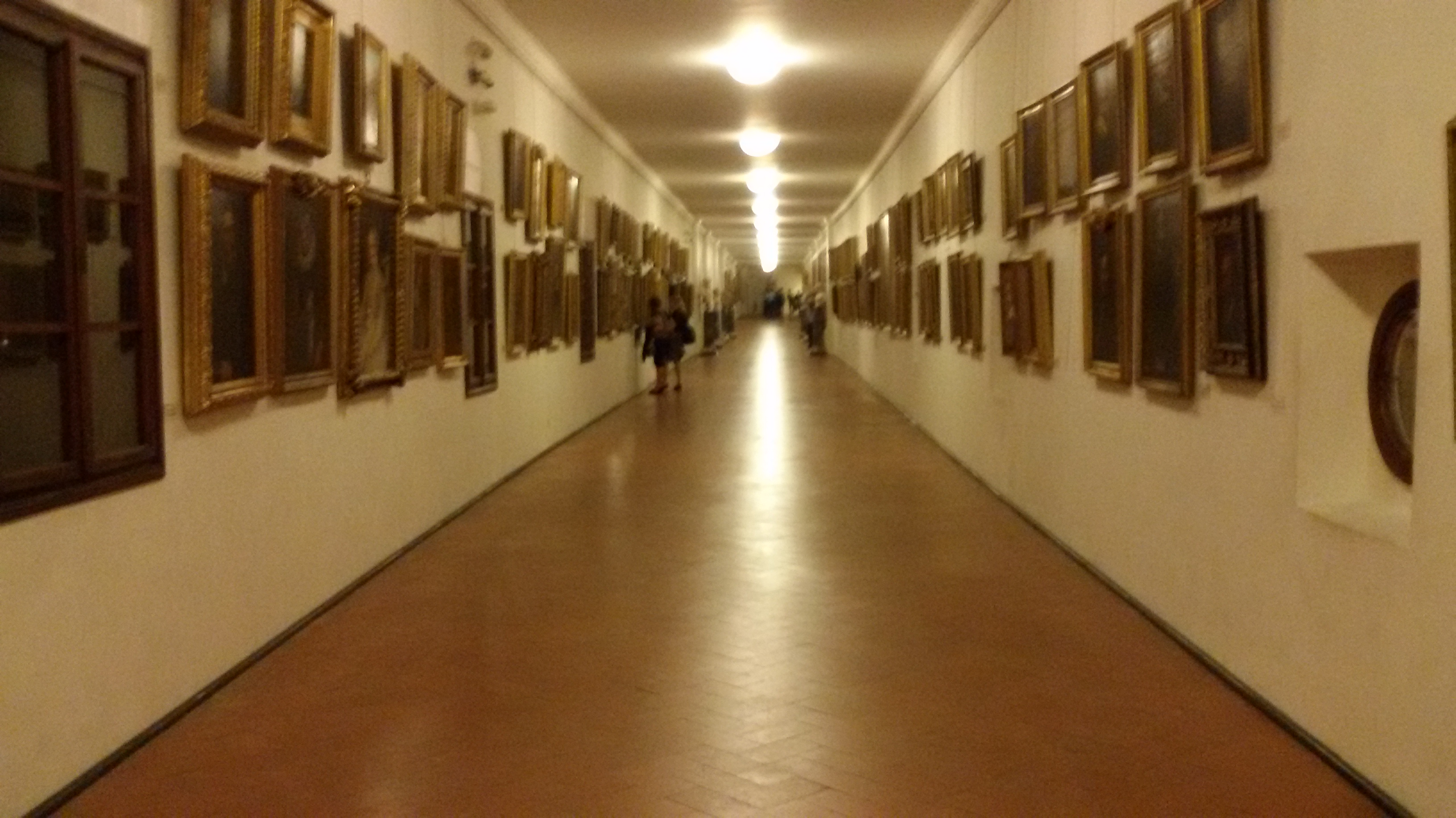 This is the second long part of the corridor from the Uffizi Gallery toward Palazzo Pitti.